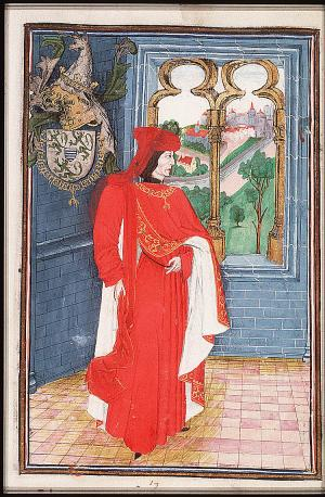 1 = Statuts, Ordonnances et Armorial de l'Ordre de la Toison d'Or (Statutes, Ordonnances and armorial of the Order of the Golden Fleece) Place of origin, date: Southern Netherlands; 1473. Added sections: Southern Netherlands; 1478 or shortly after and 1491 or shortly after Material: Vellum, ff. 86, 249x187 (167x106) mm, 23 lines, littera cursiva (lettre bourguignonne). French. Binding: 18th-century brown leather Decoration: 1 full-page miniature (170x115 mm) with border decoration; 92 miniatures (185/155x120/100 mm); 1 historiated initial (80x90 mm) with border decoration; decorated initials with border decoration (ff., Added section: miniatures ; 4 drawings for miniatures (not finished) Provenance: Presented in 1473 by Gilles Gobet, King of Arms of the Order of the Golden Fleece, to Charles the Bold, Duke of Burgundy and the other Knights during the Chapter of the Order held at Valenciennes; Treasure of the Golden Fleece, Brussls; taken away by the Treasurer C.-F. Humyn (d. 1735) or his daughter C.Ch. de Corte; by legacy to her daughter M.-L. de Corte, wife of Ph.-E. de Poederlé; purchased in 1781 at the Poederlé sale by G.-J- Gérard of Brussels; acquired in 1832 as part of the Gérard collection (no. A 27)